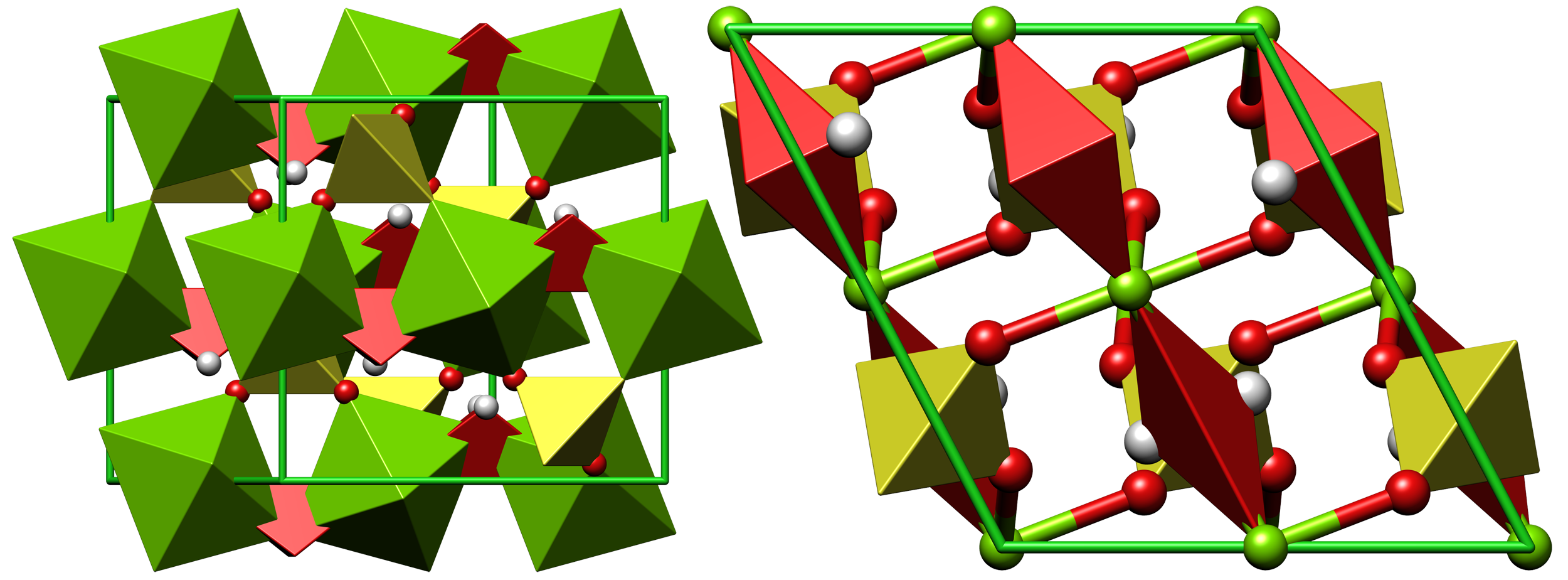 Crystal structure of kieserite - MgSO4·H2O). Hawthorne F C, Groat L A, Raudsepp M, Ercit T S Colour code: Magnesium, Mg: bright green Sulfur, S: olive Hydrogen, H: white Oxygen, O: red Cell: green